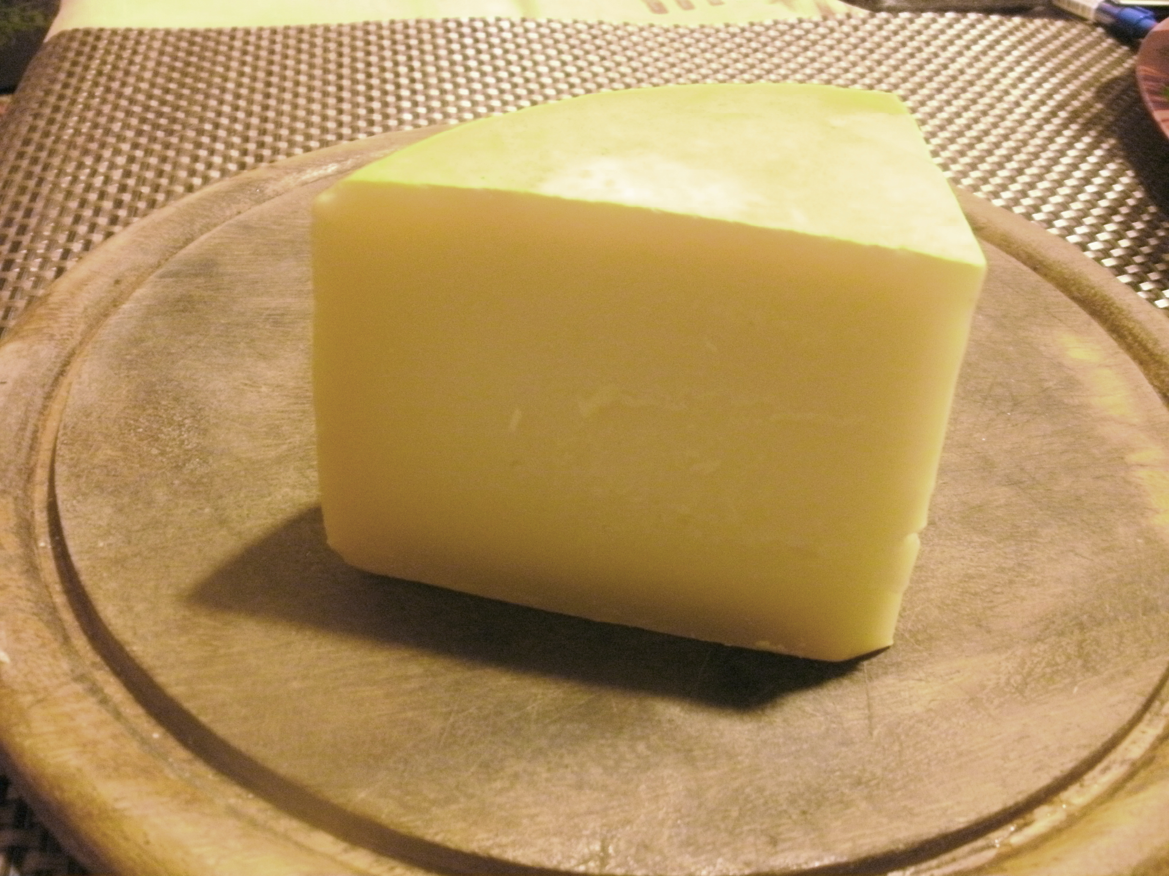 Original Trappista cheese